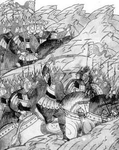 Battle of Lipitsa. Entry Mstislav Removed in battle